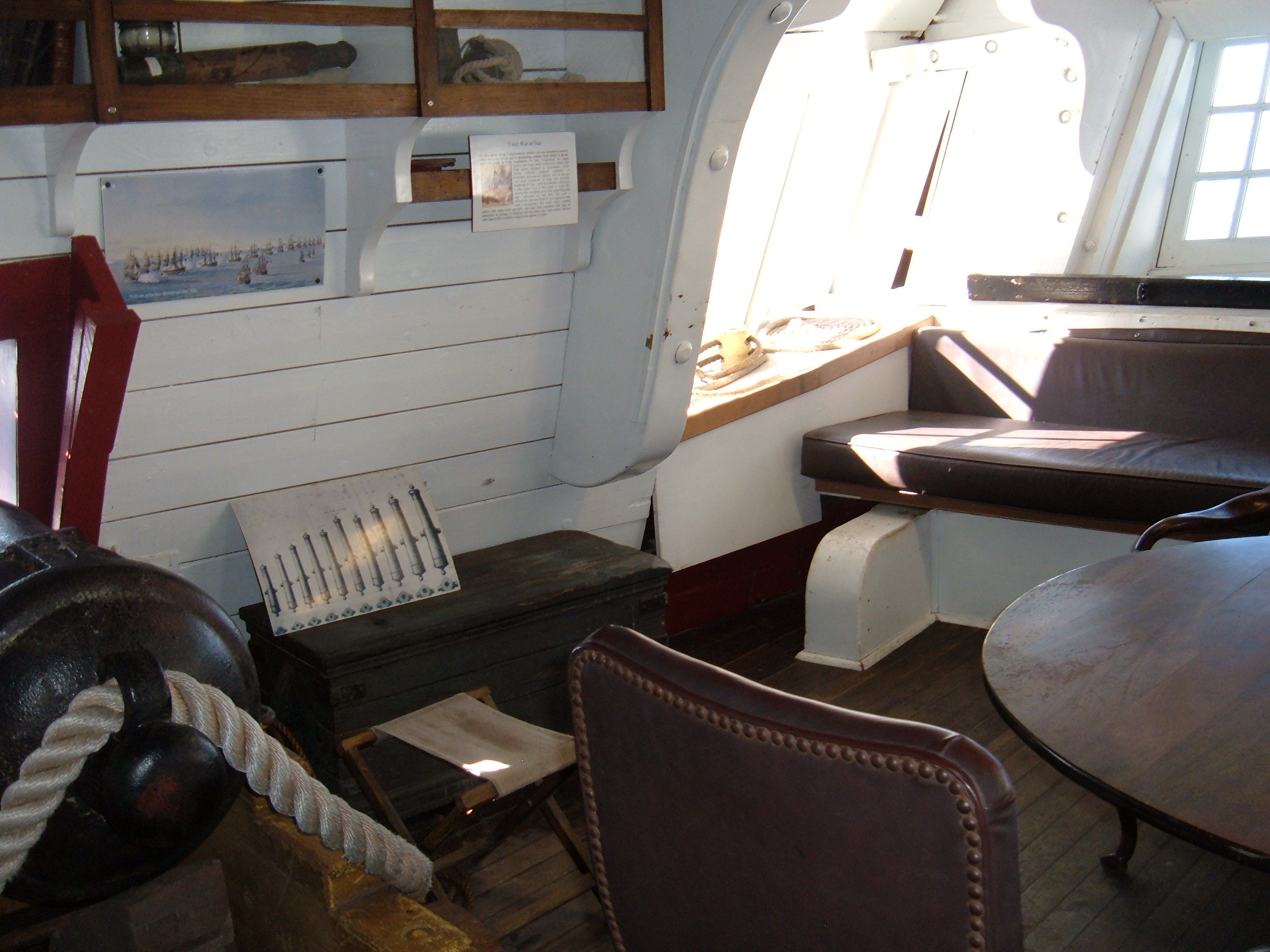 The captain's cabin of the HMS Surprise at the Maritime Museum of San Diego.